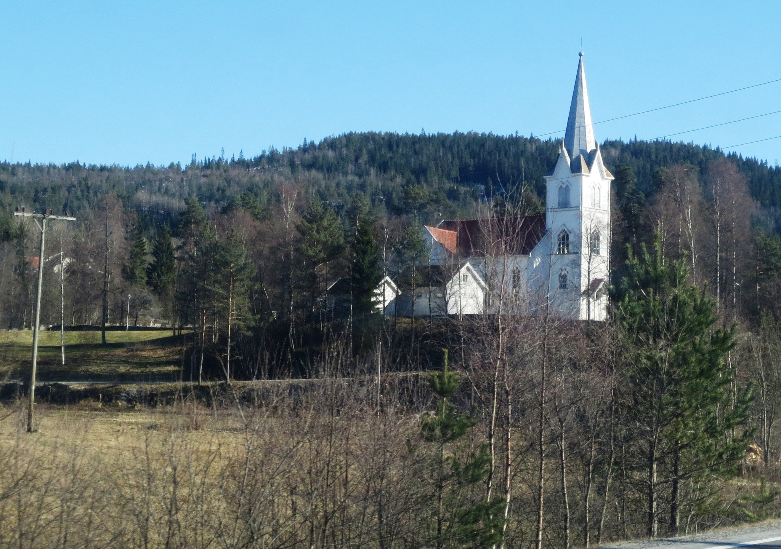 Image from the municipality of Evje & Hornnes, in Aust-Agder county, Norway